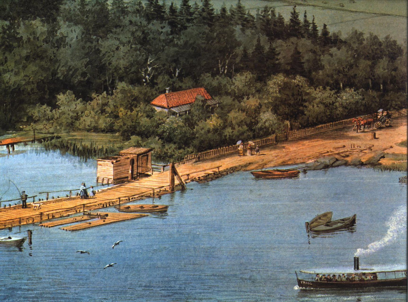 The first bridge between Lidingö and Stockholm, Sweden. View of the area close to Larsberg, Lidingö, year 1883. cropped